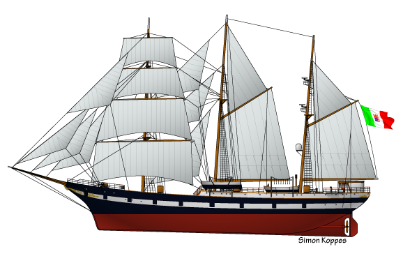 Drawing of the Italian sailing ship Palinuro